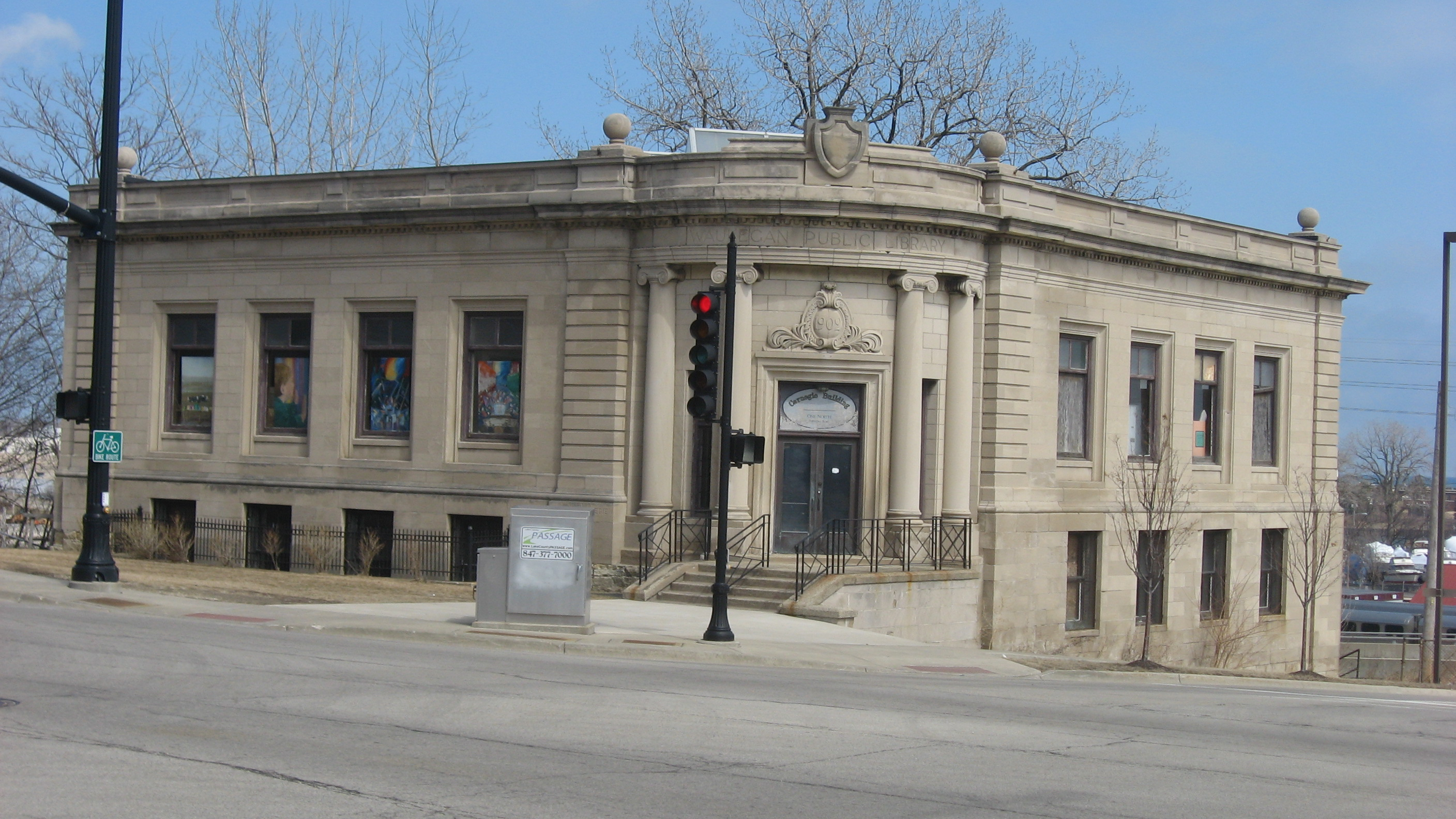 Front and southern side of the former Waukegan Public Libary building, located at 1 N. Sheridan Road in Waukegan, Illinois, United States. A Carnegie library built in 1903, it is listed on the National Register of Historic Places.